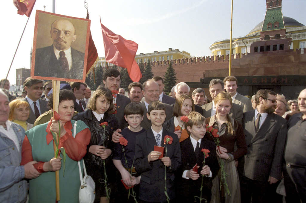 “The leader of the CPRF Gennady Zyuganov at the Red Square”. The 130th Anniversary of the birth of V. Lenin. The leader of the Communist Party of the Russian Federation (CPRF), the Deputy of the State Duma Gennady Zyuganov (in the background) at the Red Square with the young people admitted to the Komsomol Organization on that day.